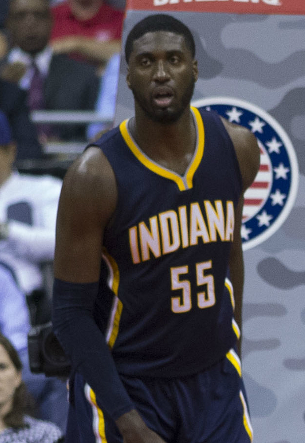 Roy Hibbert